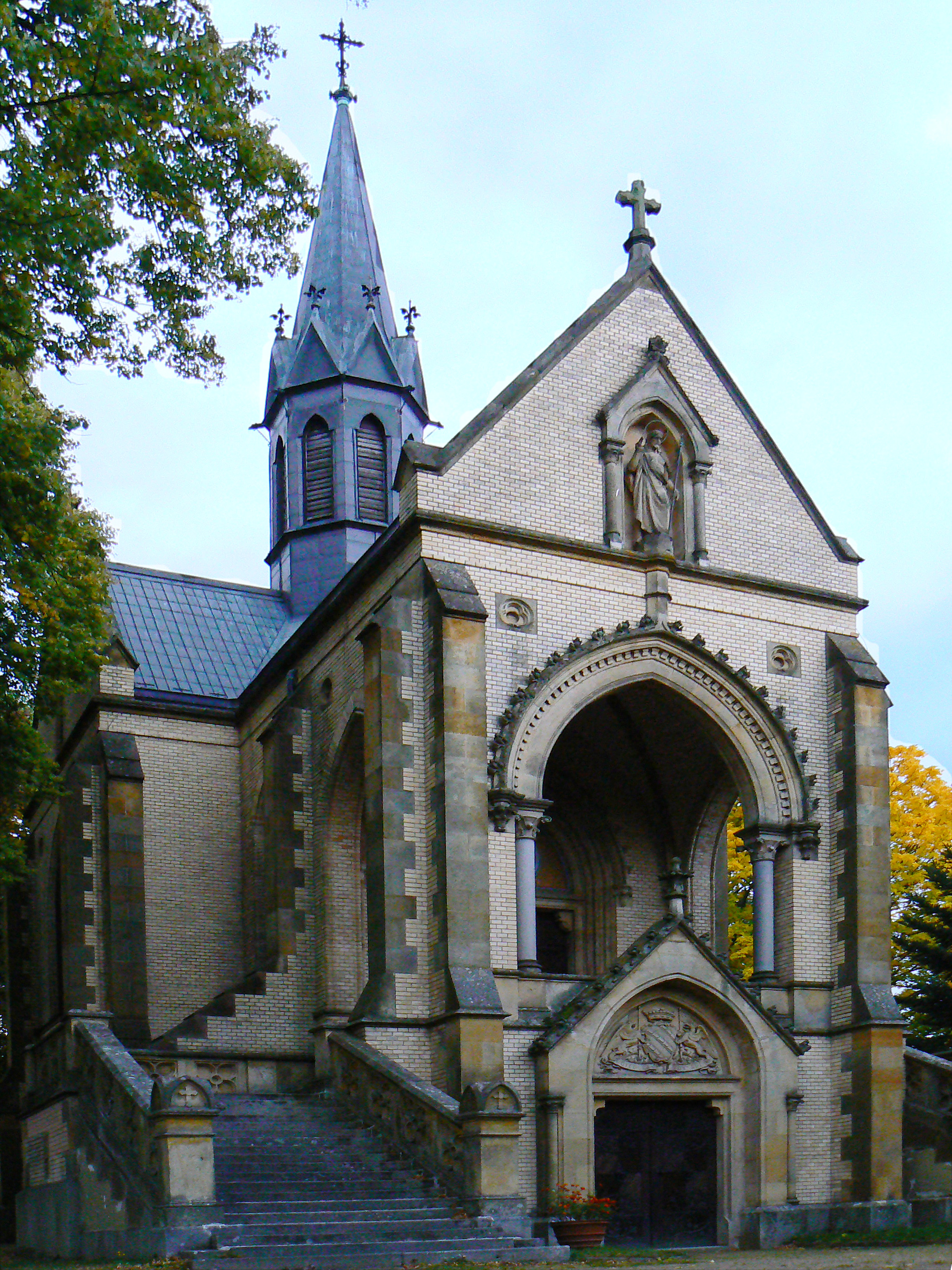 Buquoy tomb in the town of Nove Hrady, CZ